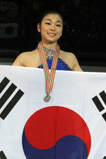 Kim at the 2010 World Championships.